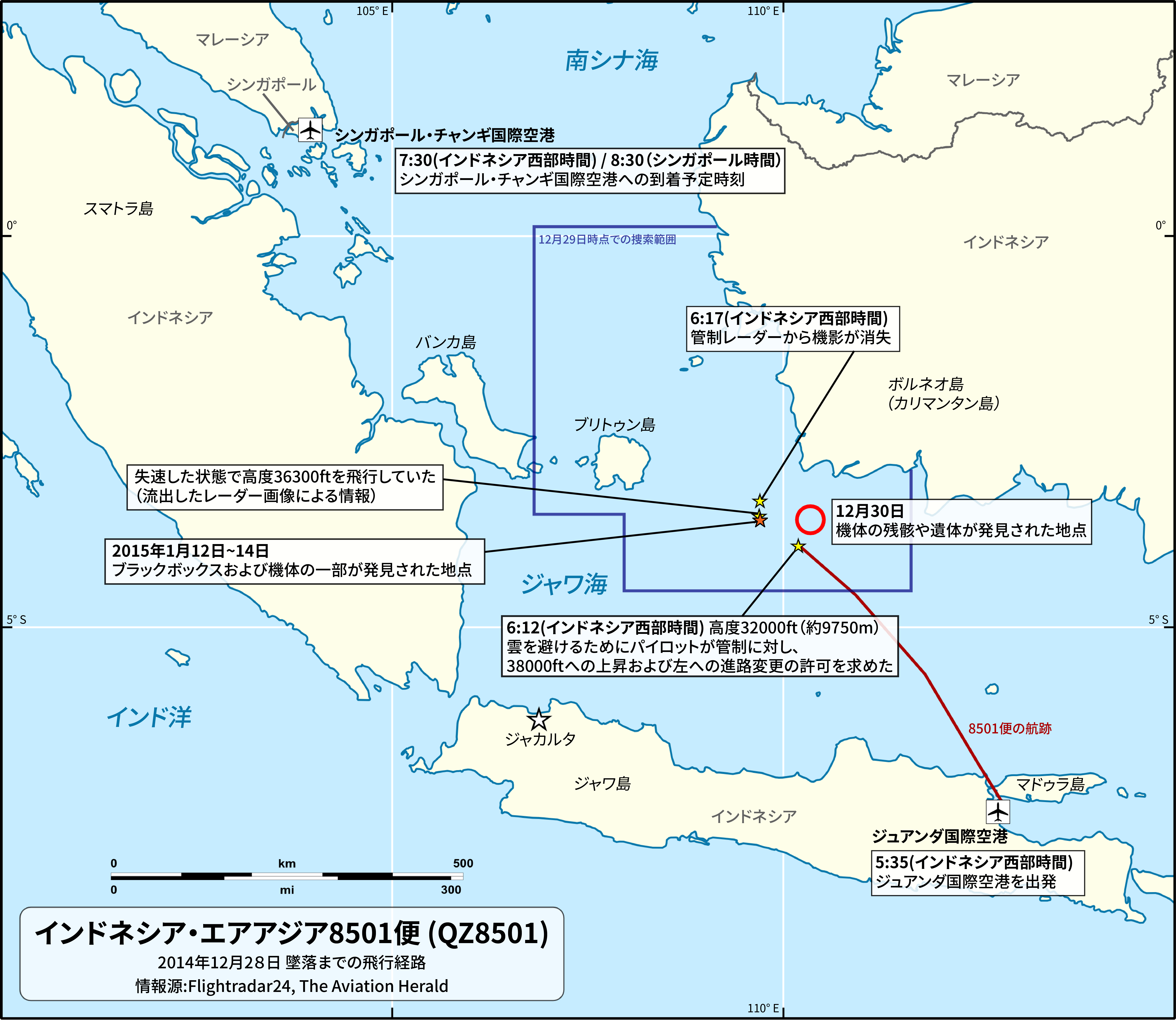 Flight path of Indonesia AirAsia Flight 8501(QZ8501)